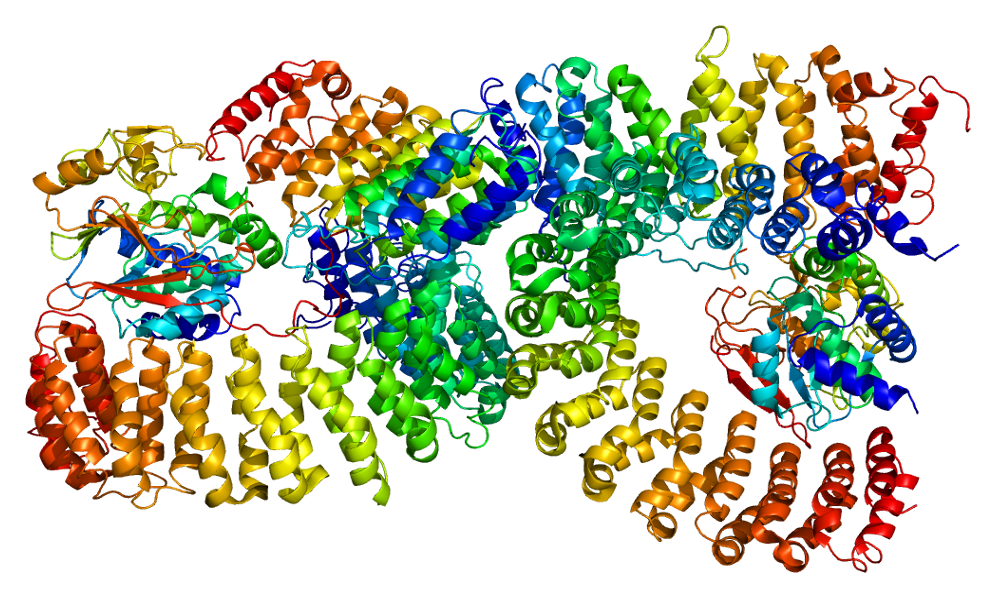 Structure of the PPP2CA protein. Based on PyMOL rendering of PDB 2iae.